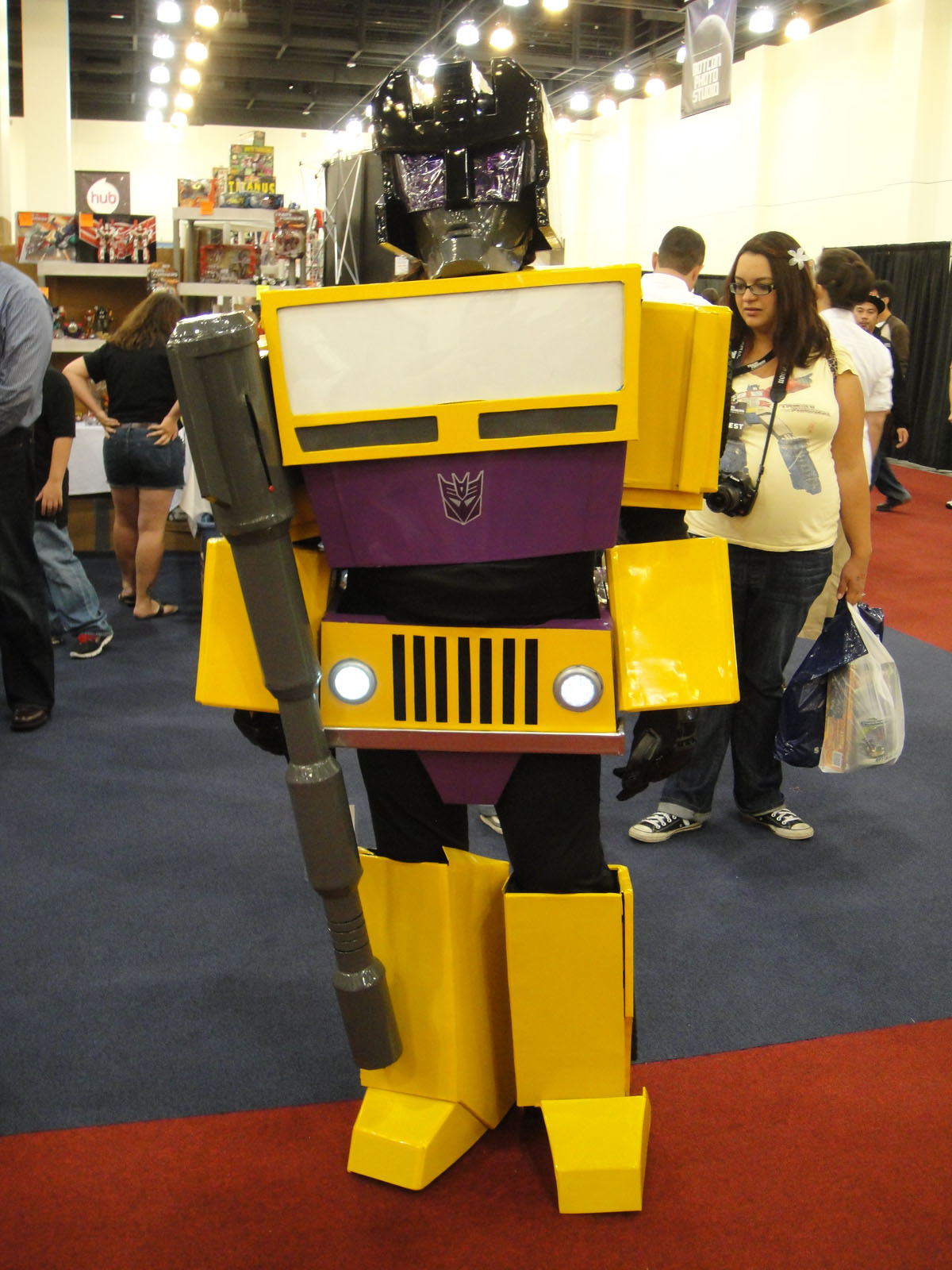 Cosplay of the Combaticon Swindle at BotCon 2011. Photo 2011 taken by Doug Kline. If you're interested in higher resolution versions of my images, contact me via my profile page.